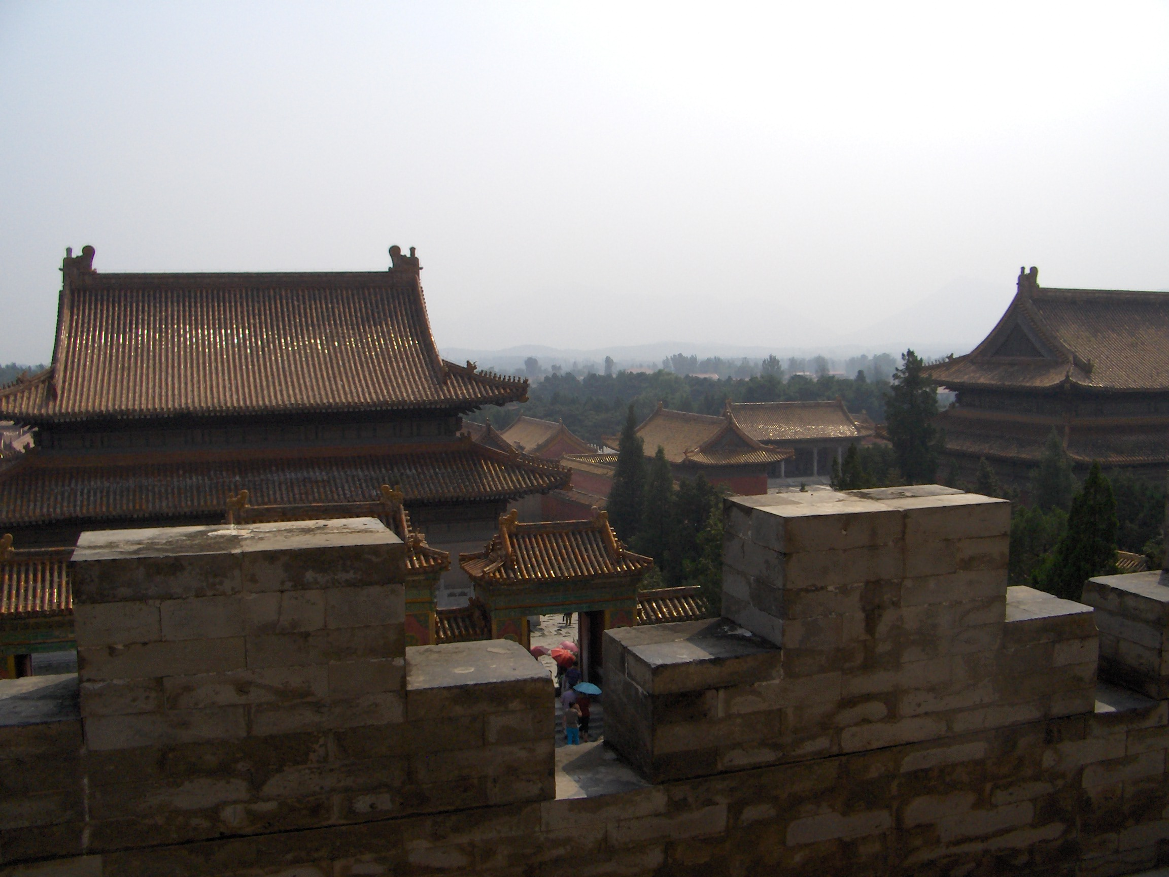 Tombs of Cixi and Ci'an